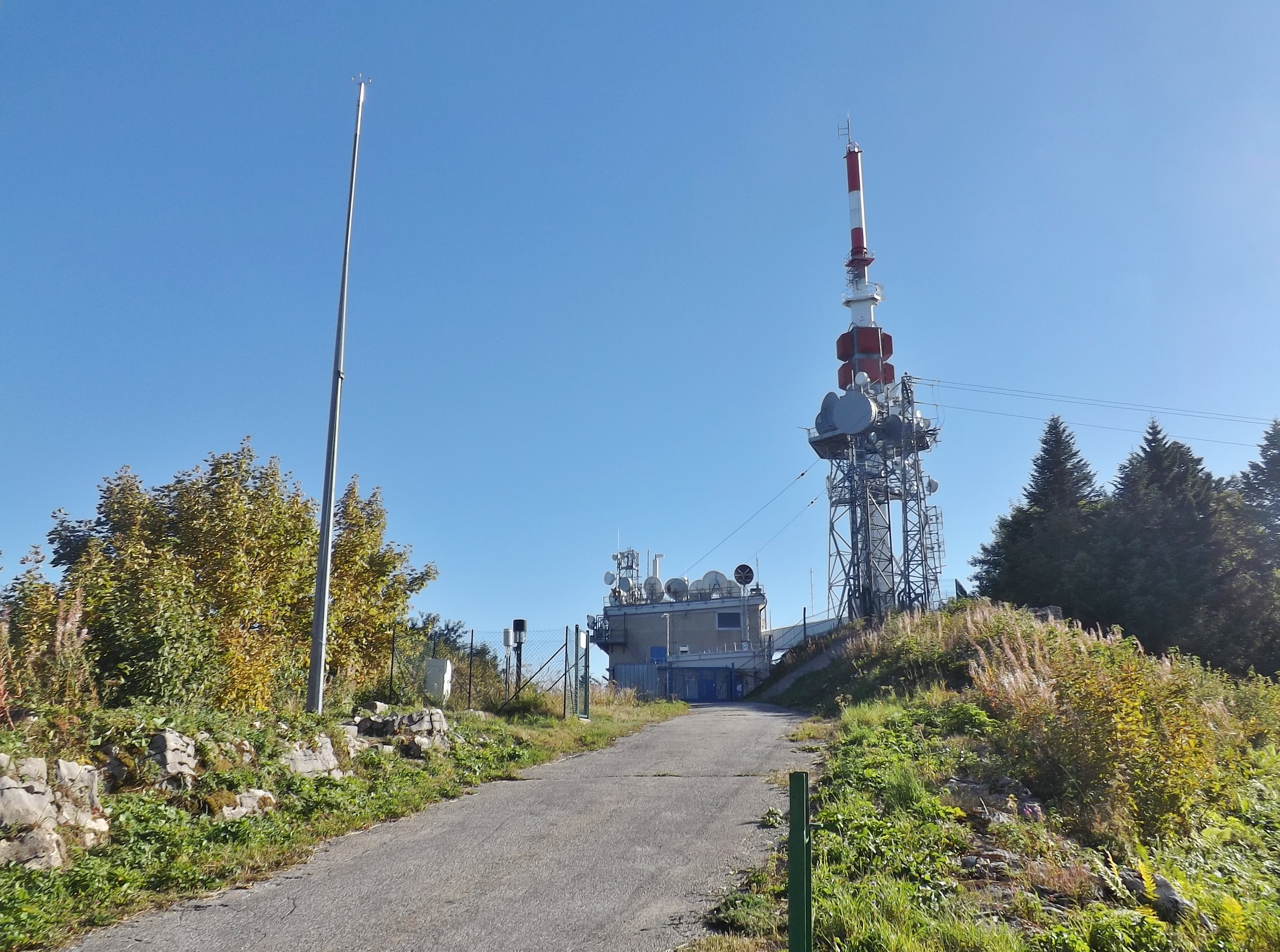 Sight of the antenna tower and mast of le mont du Chat (1 504 meters high), limit of both French communes of Le Bourget-du-Lac and Saint-Paul, in Savoie.